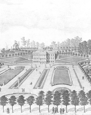 Engraving by W.A. Müller depicting Marienlyst with Nicolas-Henri Jardin's garden complex